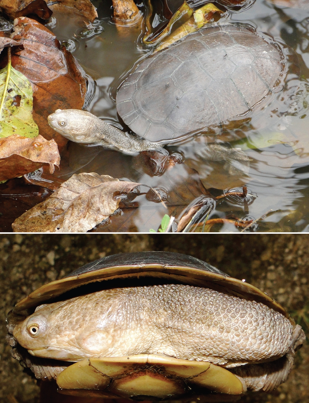 Chelodina mccordi timorensis. This specimen was presented to us by a resident of Malahara village, Lautém District. The lower panel shows how this turtle can bend its neck under its carapace when threatened.